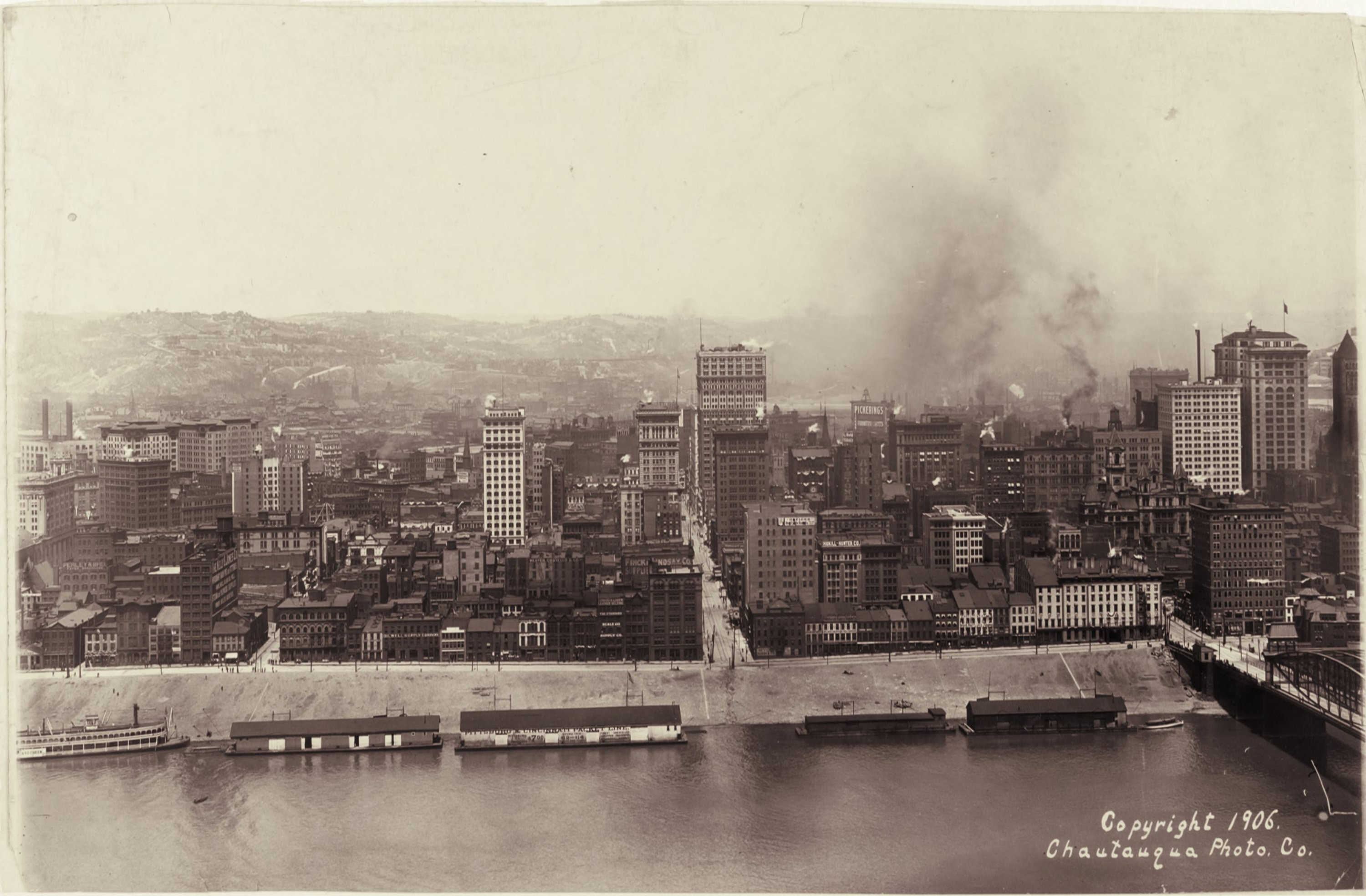 View of the Monongahela Wharf and downtown Pittsburgh from Mount Washington. The Smithfield Street Bridge is partially visible on the right. Date 1906 Title Pittsburgh: River View, Looking at Downtown from the Monongahela River Subjects Downtown (Pittsburgh, Pa.) Monongahela River (W. Va. and Pa.) Monongahela Wharf (Pittsburgh, Pa.) Rivers--Pennsylvania--Pittsburgh Smoke--Pennsylvania--Pittsburgh Riverboats--Pennsylvania--Pittsburgh Stern-wheelers--Pennsylvania--Pittsburgh Smithfield Street Bridge (Pittsburgh, Pa.) Water Street (Pittsburgh, Pa.) Wood Street (Pittsburgh, Pa.) Panoramic views--Pennsylvania--Pittsburgh Related names creator Chautauqua Photographic Company depositor Carnegie Museum of Art